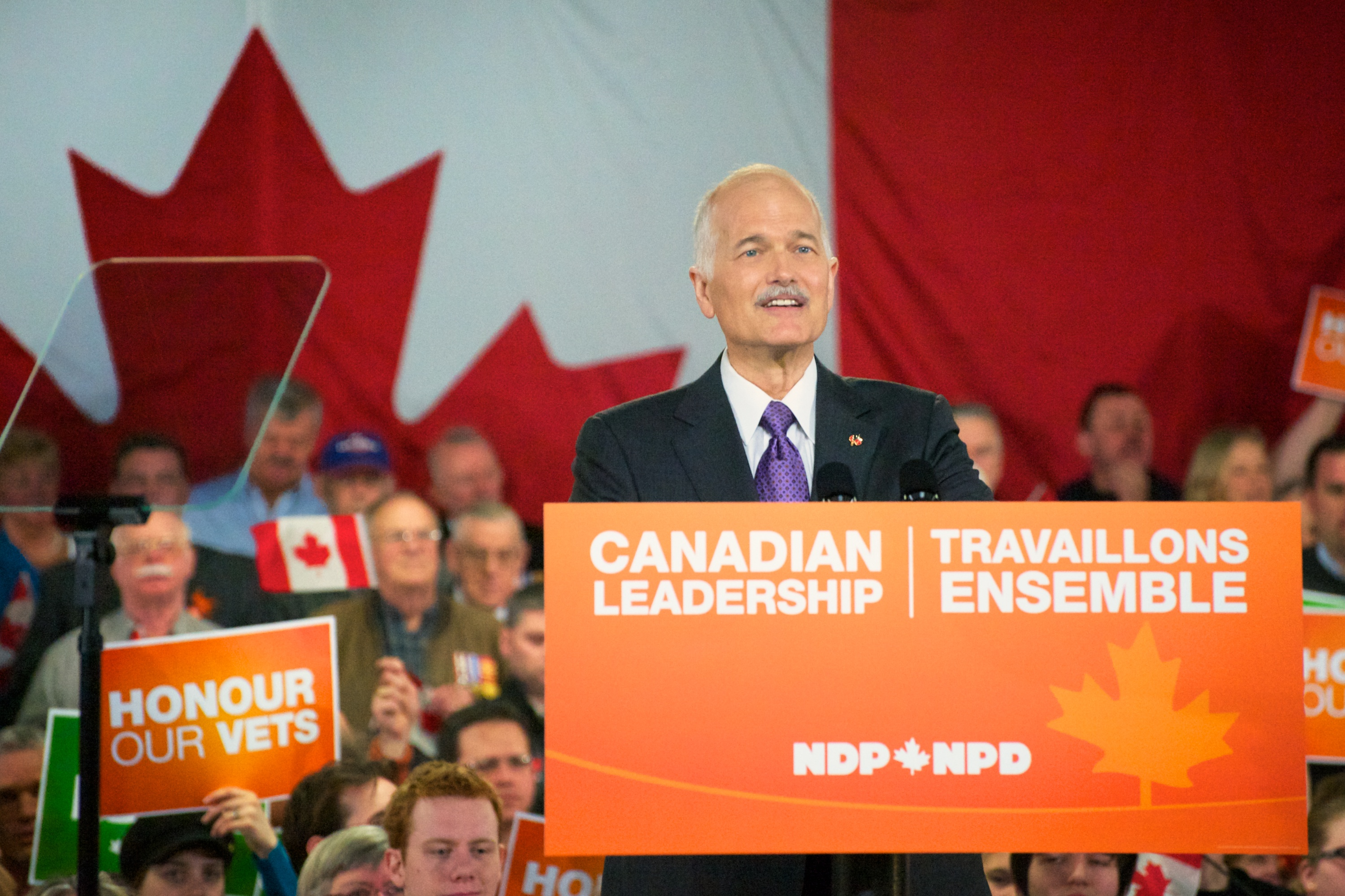 Jack Layton, Leaders Tour - Tournée du Chef - Dartmouth Rally